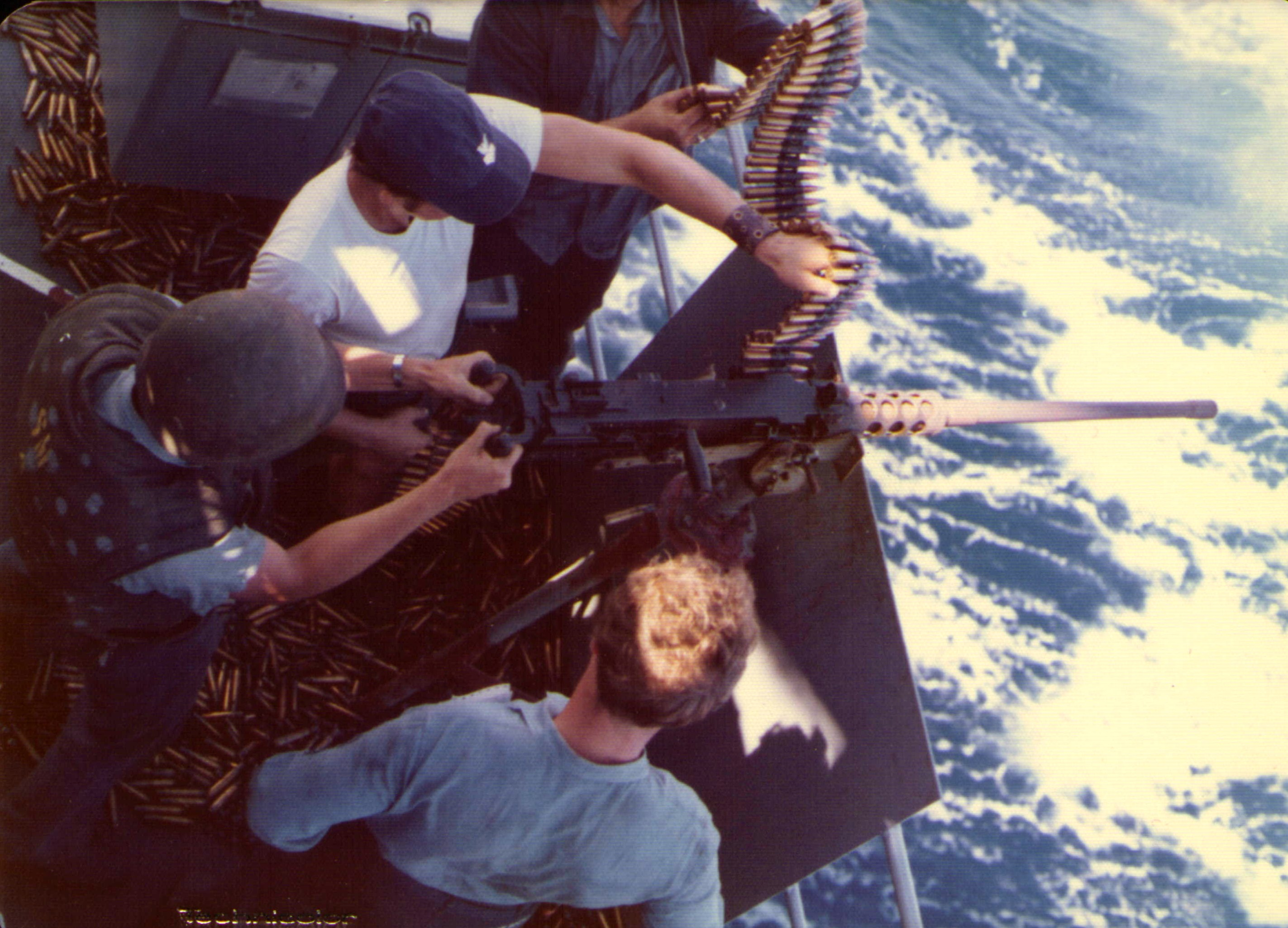 Crewmen aboard the U.S. Navy destroyer USS Hanson (DD-832) firing a 12.7 mm (0.5 cal) Browing machine gun in the Gulf of Tonkin, in 1972.